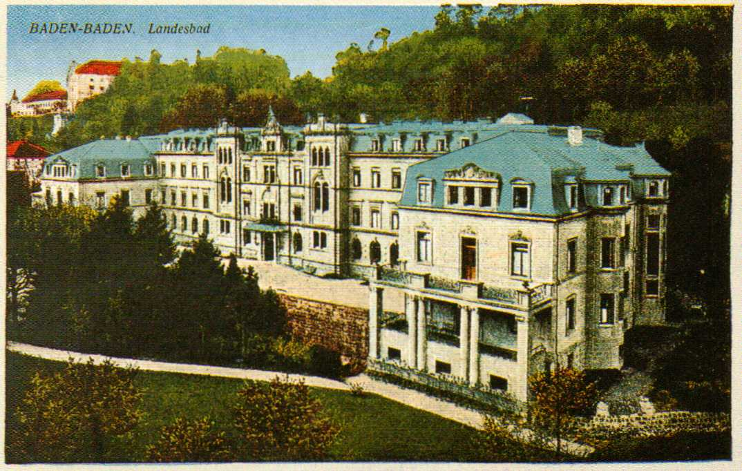 View of the Landesbad Baden in Baden-Baden, Germany about 1900